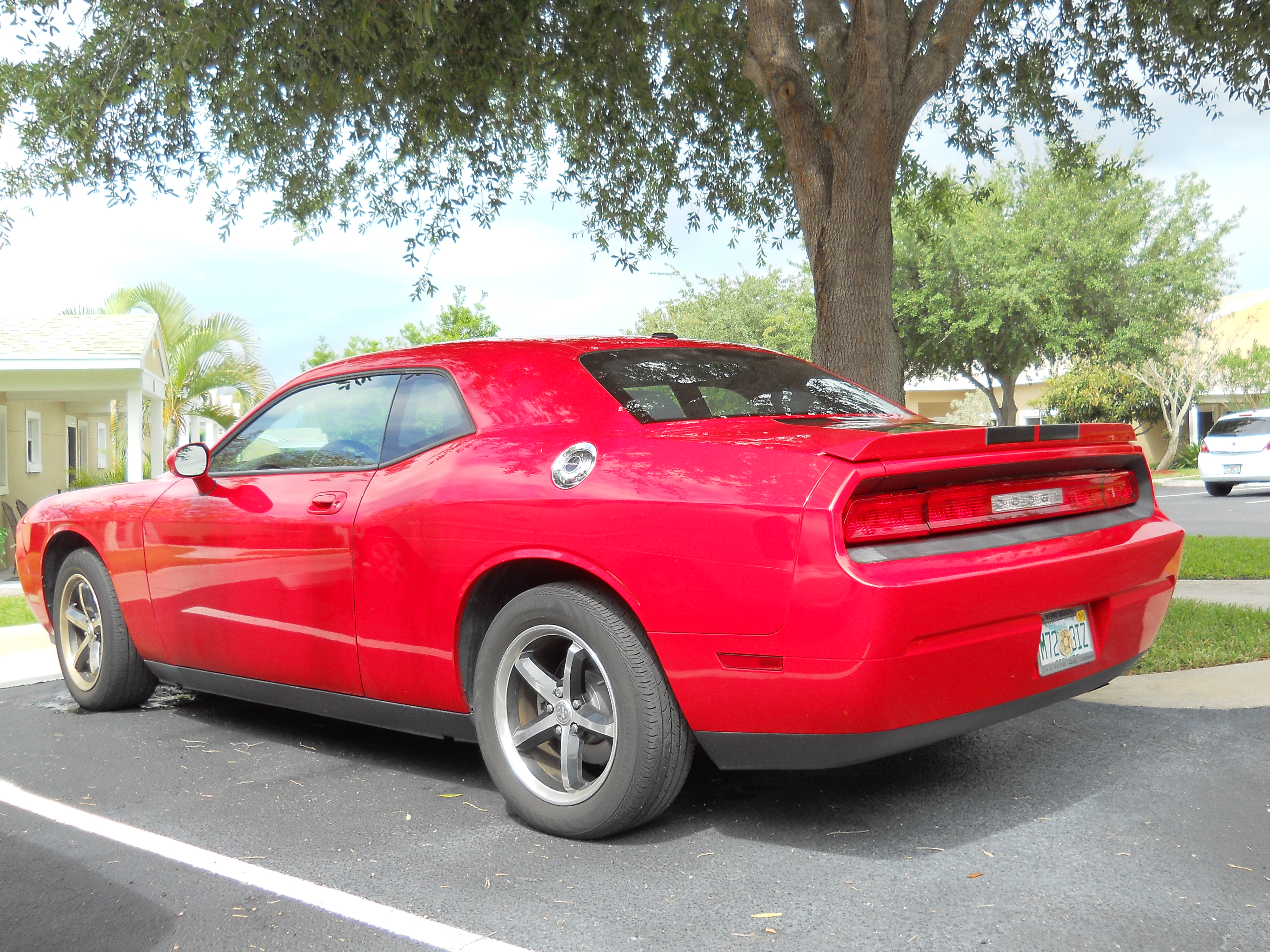 Red Dodge Challenger: left rear view